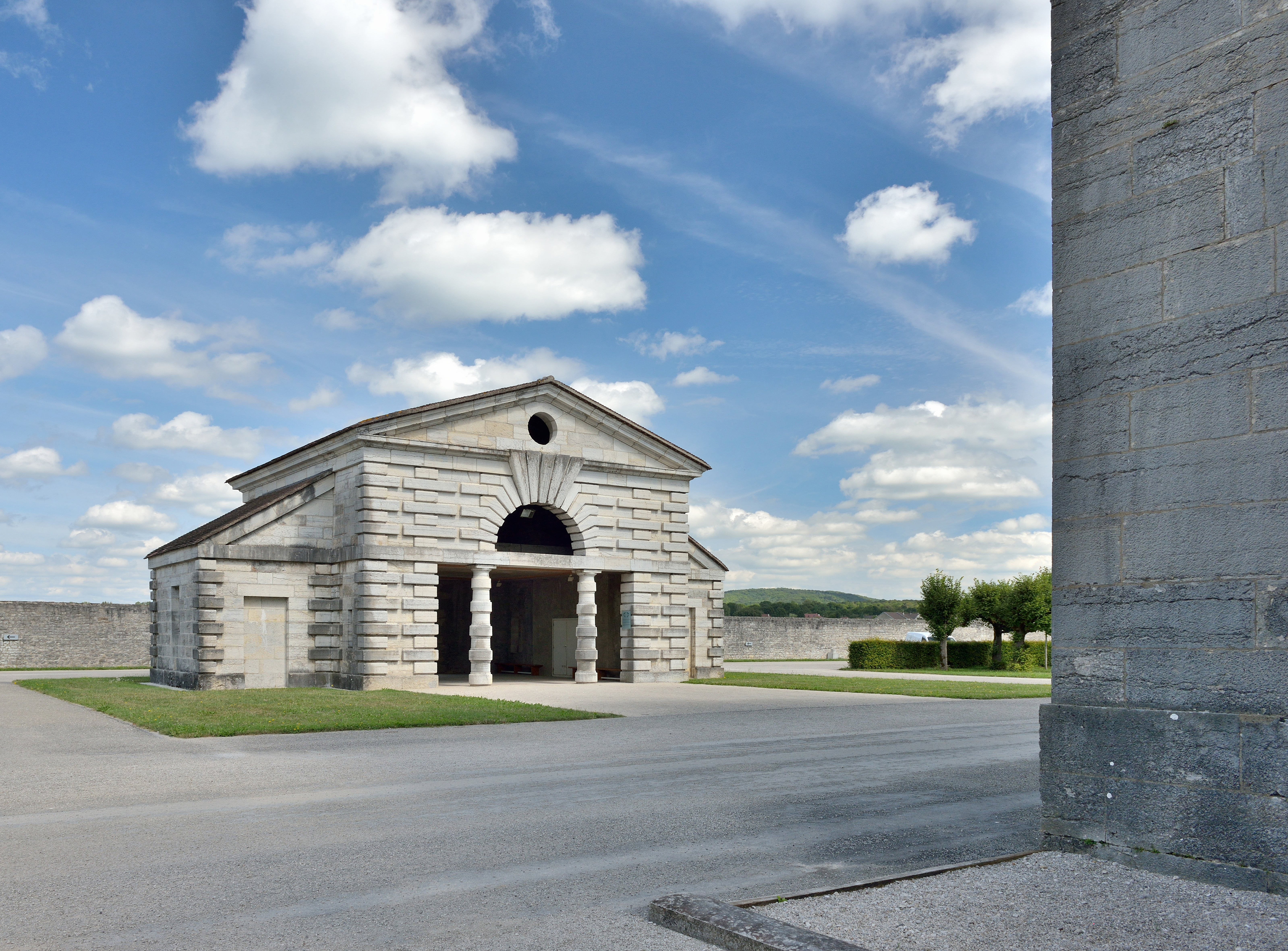 Carriage house and stable of the director in the Royal Saltworks at Arc-et-Senans in France